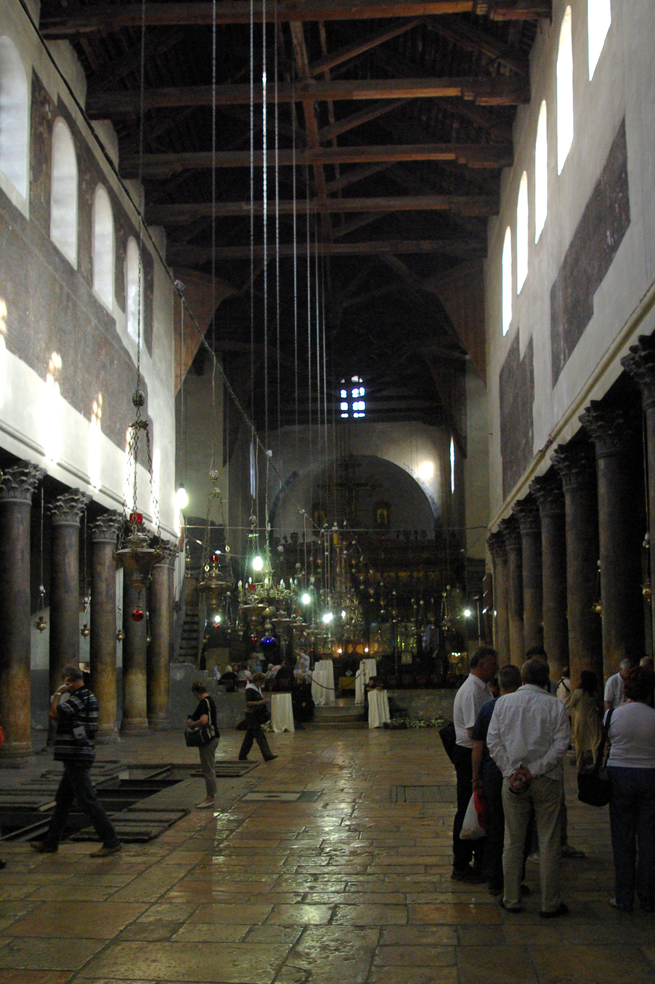 Bethlehem, Church of the nativity